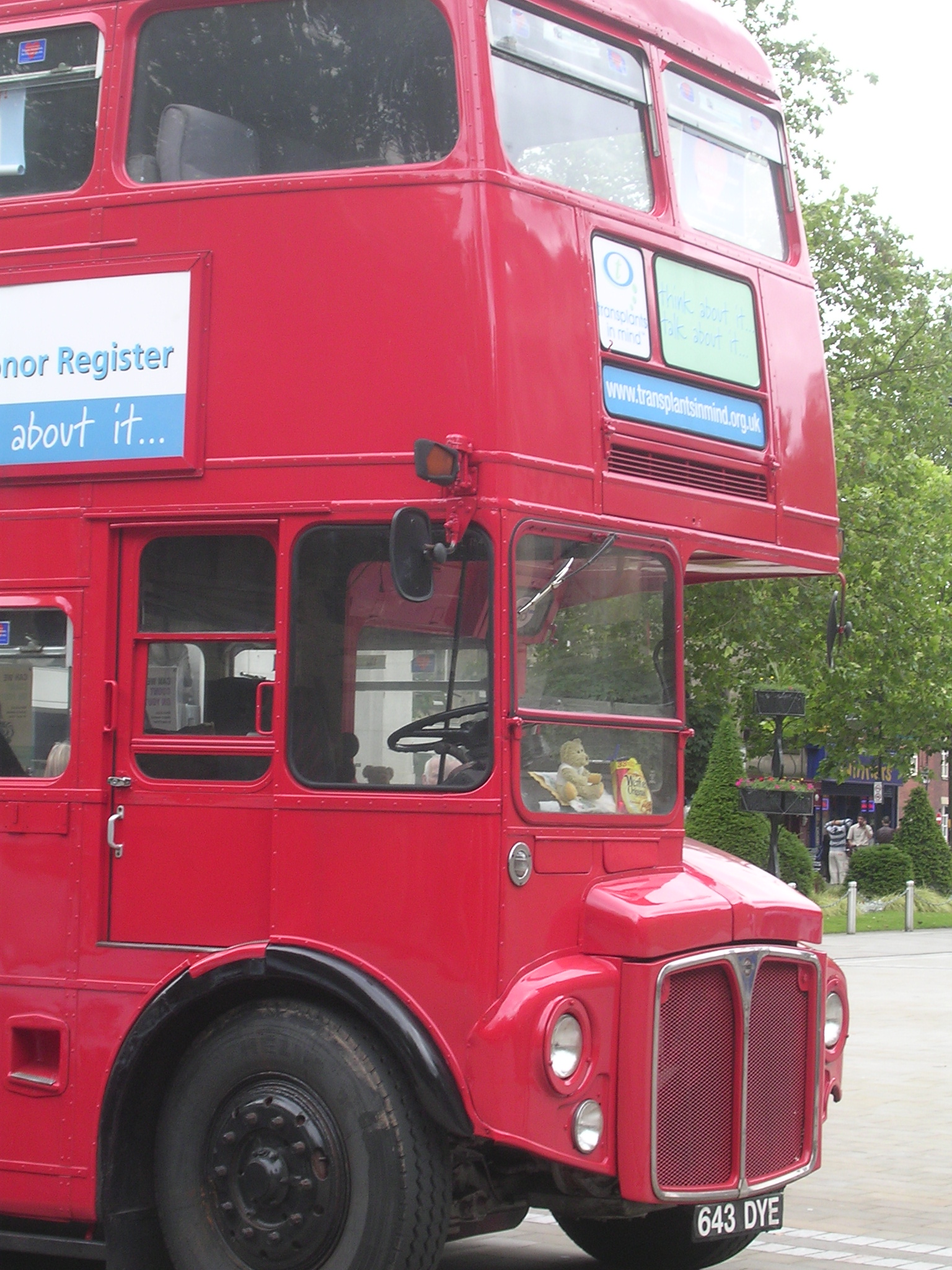 Former London Transport Routemaster RM1643 being used by NHS to enlist organ donors.